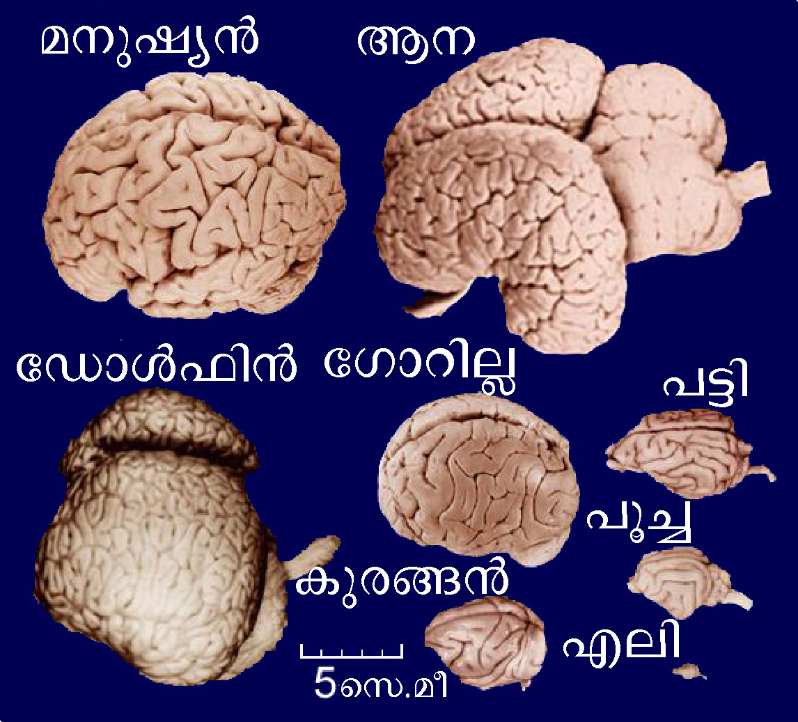 Comparative brain size in Malayalam